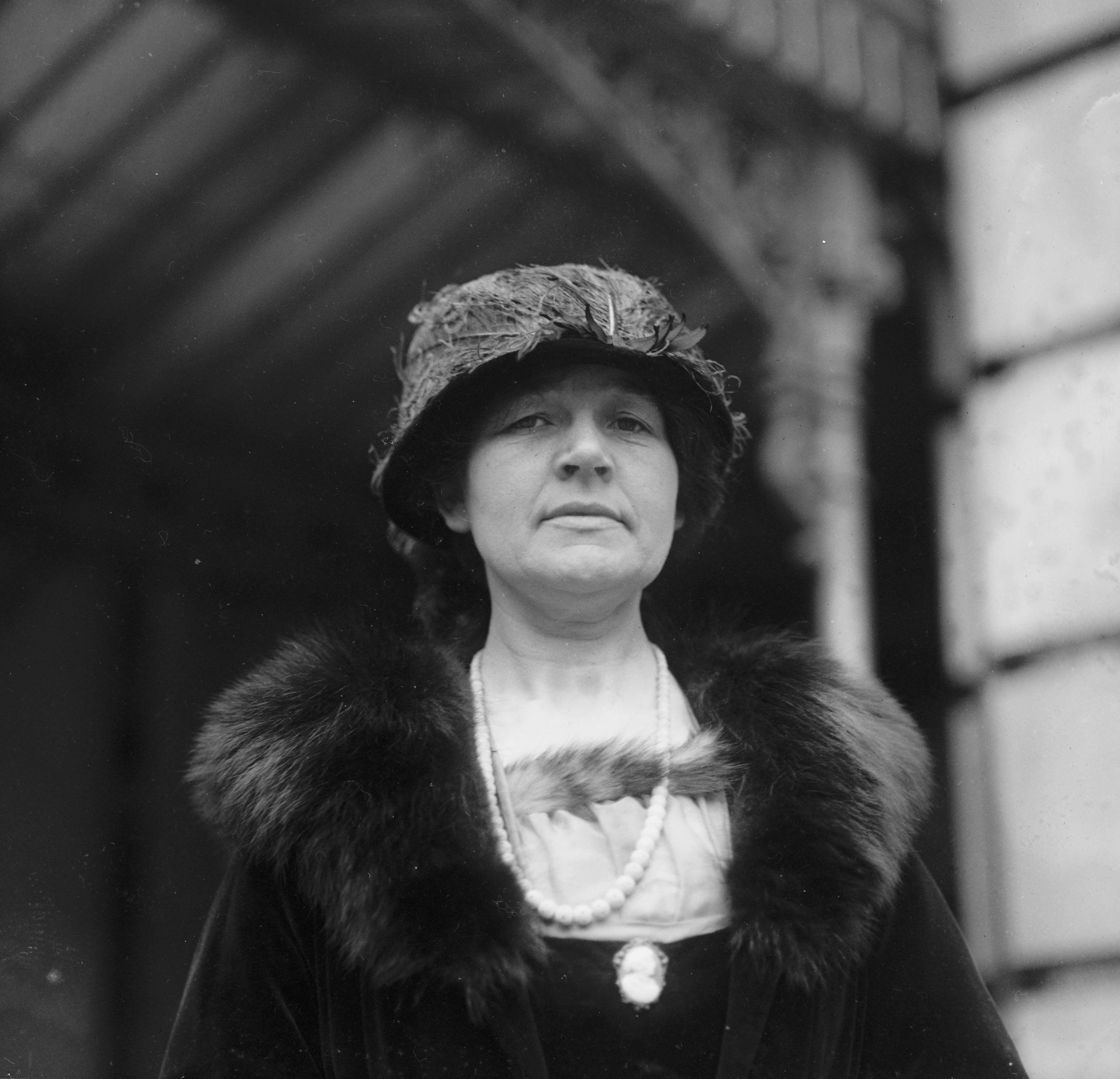 Title: Aurelia H. Reinhardt Abstract/medium: 1 negative : glass ; 4 x 5 in. or smaller